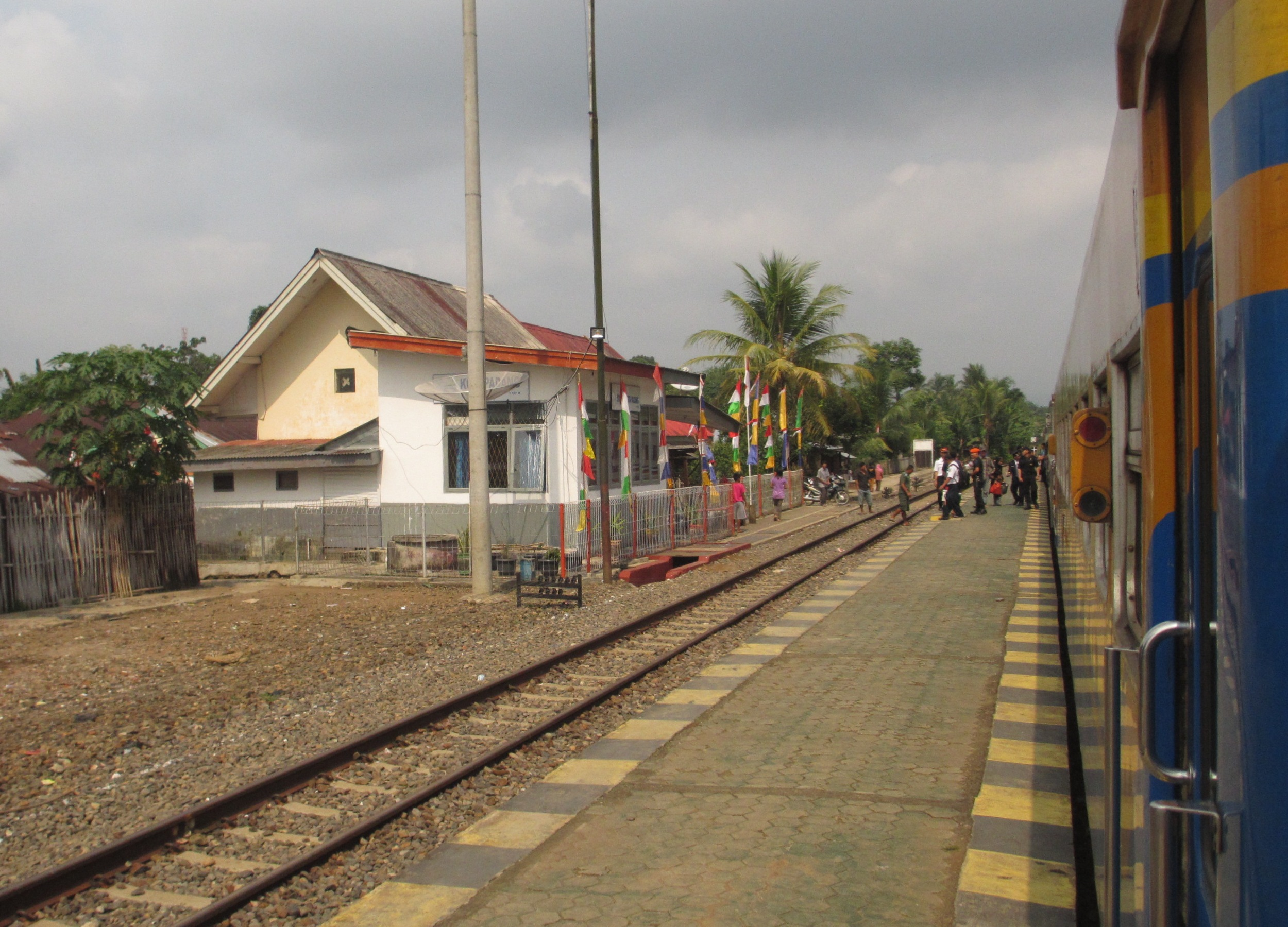 Kotapadang Railway Station, Bengkulu Province.